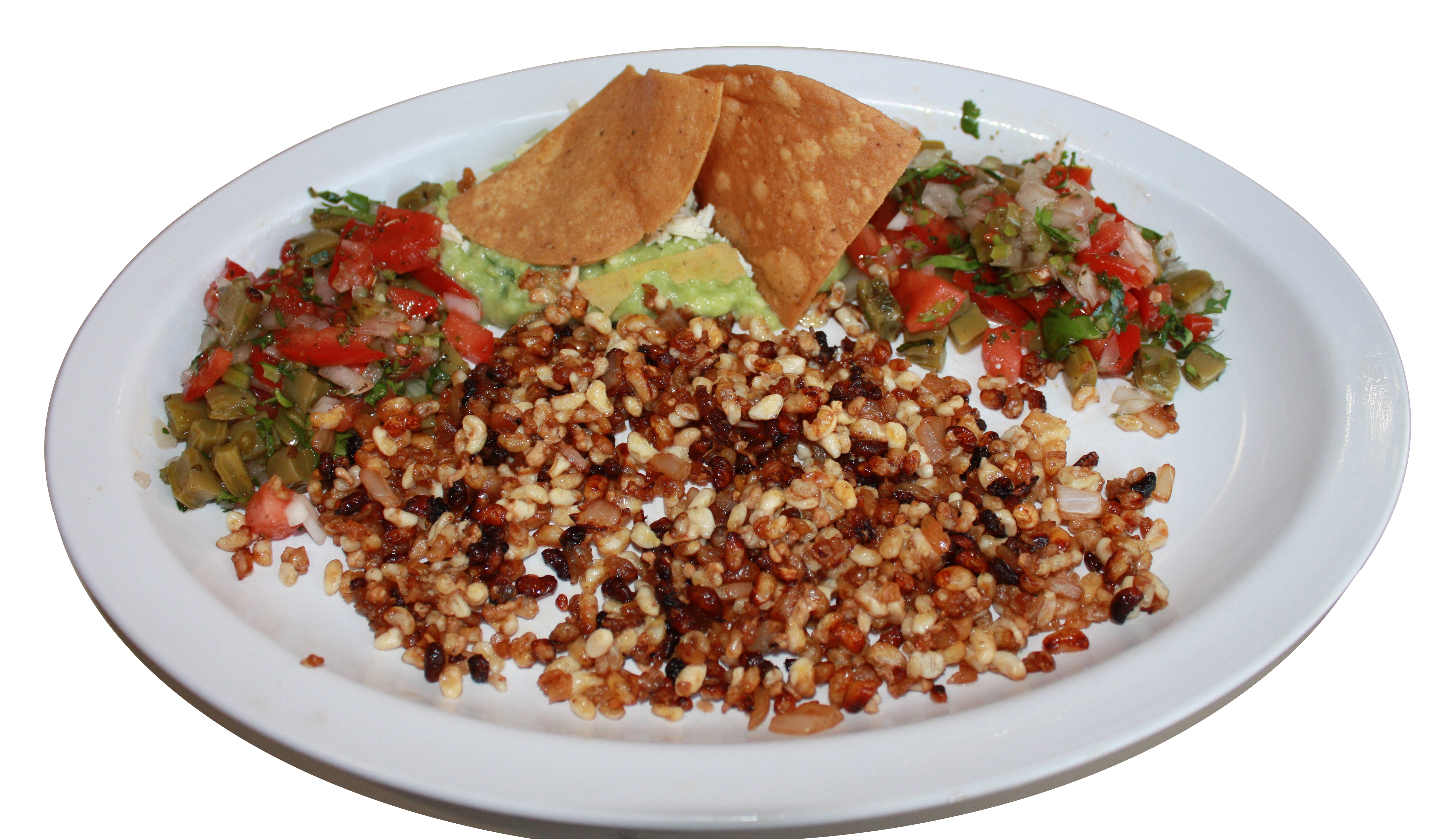 Escamoles